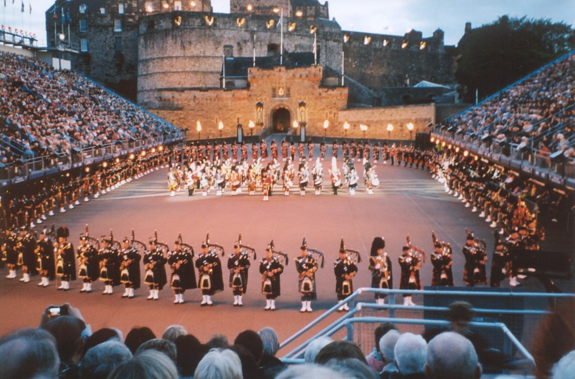 Massed pipes and drums at the Edinburgh Military Tattoo 2009